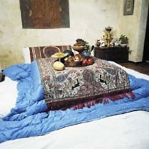 Iranian Korsi table